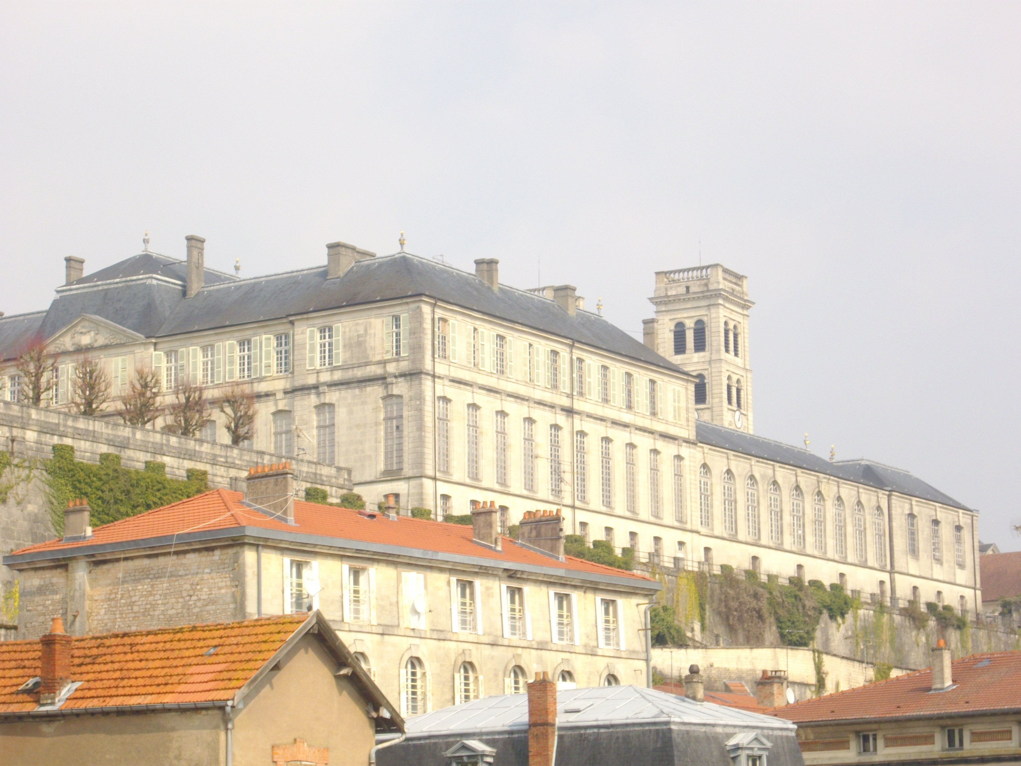 International center for peace in Verdun (Meuse, France) .